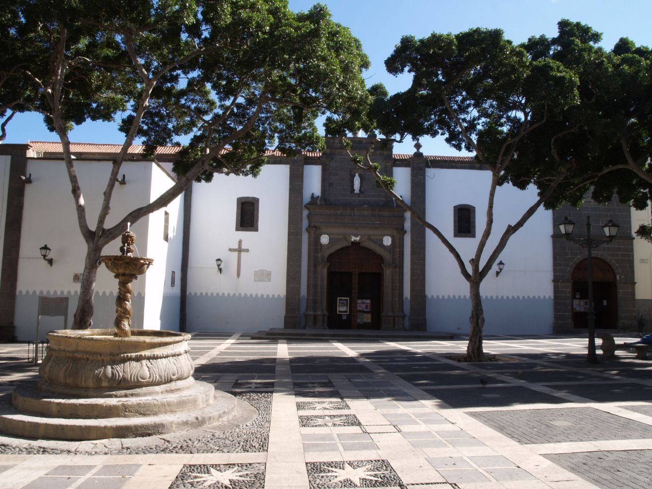 Santo Domingo Square, Vegueta Quarter. Las Palmas de Gran Canaria (Gran Canaria). Canary Islands, Spain.